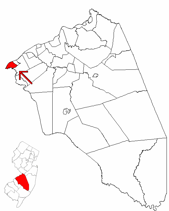 Map of Burlington County highlighting Palmyra